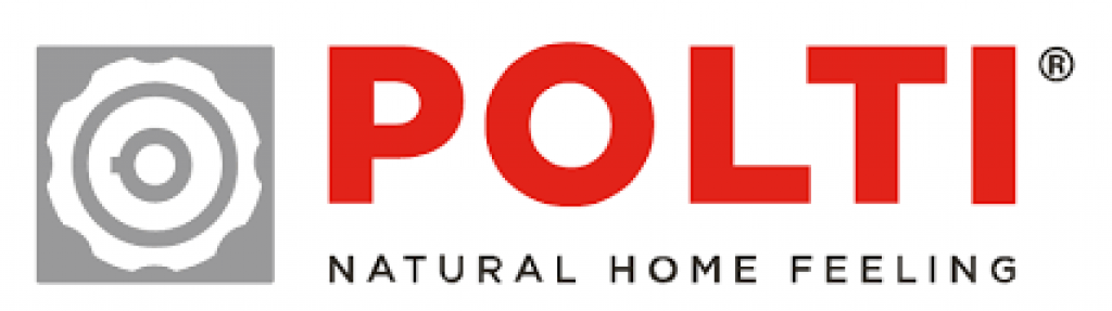 Polti's logo